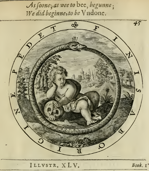 Engraving by Crispin van Passe, as published in George Wither's Collection of Emblems (1635)